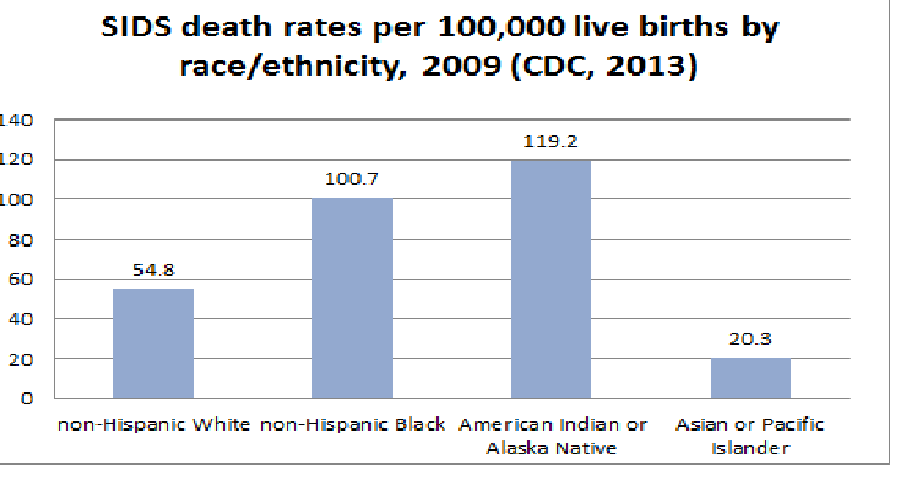 Rates of Sudden Infant Death Syndrome by race/ethnicity in the U.S., 2009 (Source: CDC, 2013)